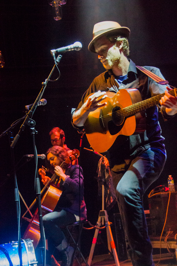 The Lumineers perform at 9:30 Club in Washington, D.C. on August 2, 2012 — on tour with Old Crow Medicine Show. Wesley Schultz on acoustic guitar (right), Neyla Pekarek on cello (left), Ben Wahamaki on standup bass (back).